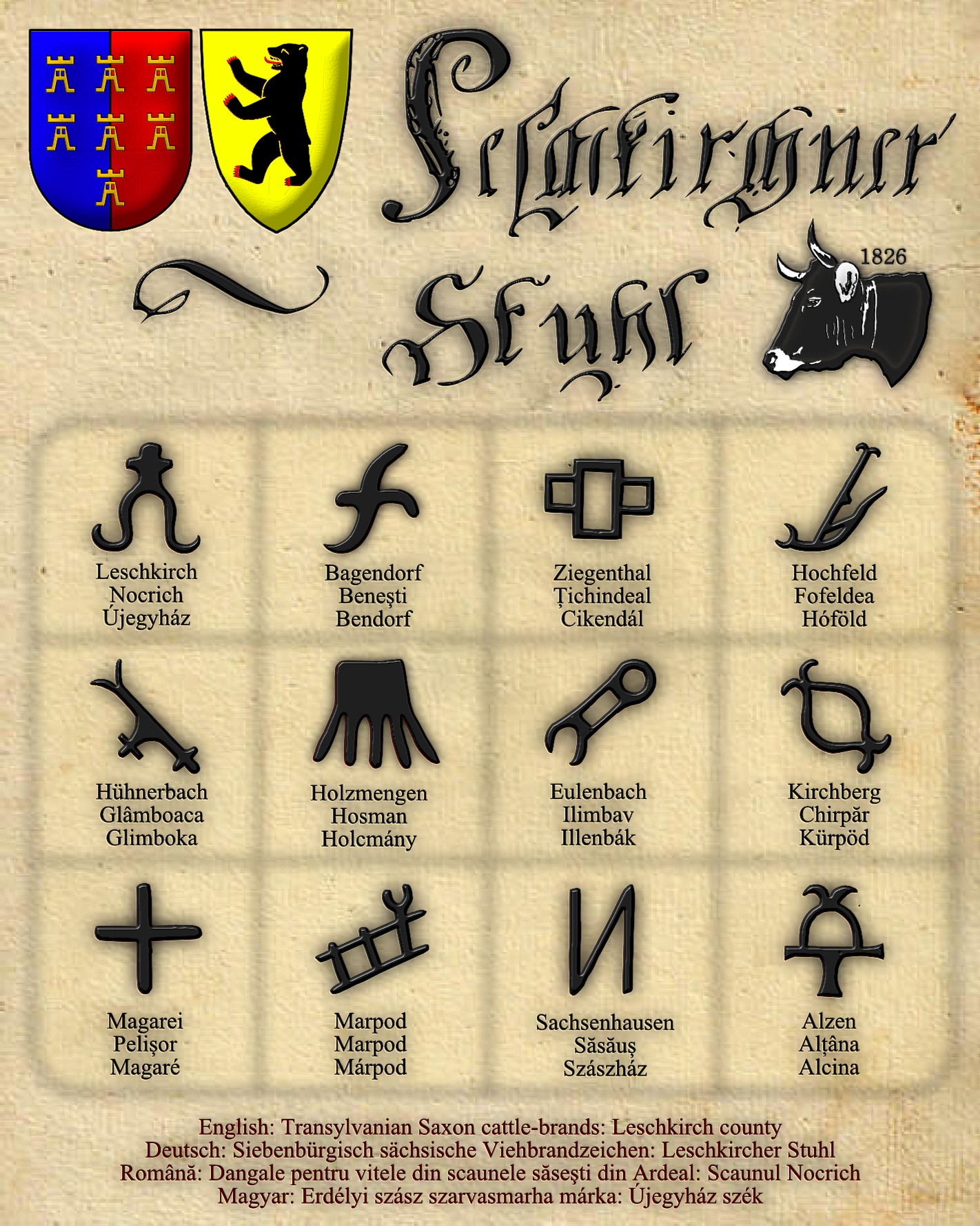 Transylvanian Saxon cattle-brands: Leschkirch county